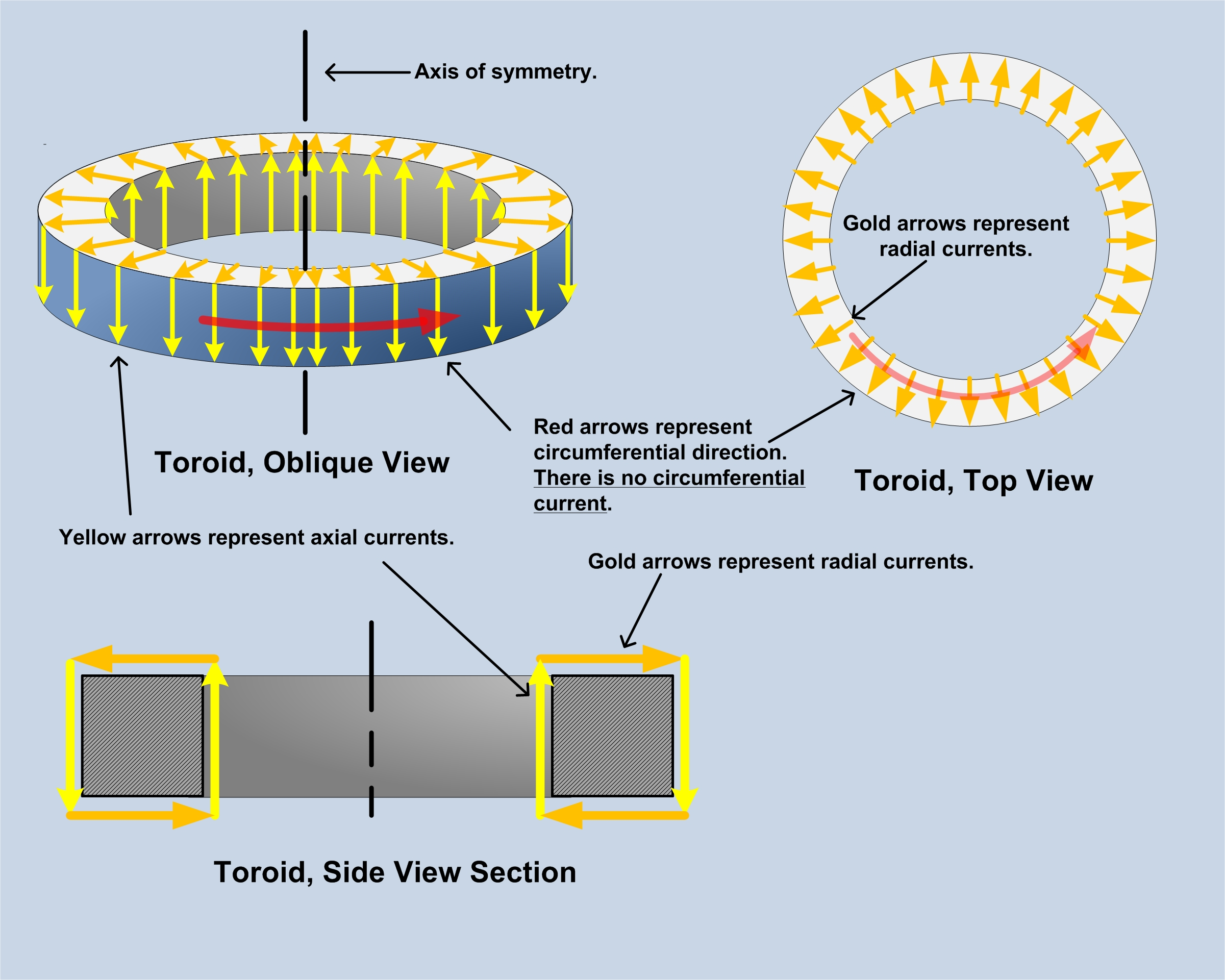 A toroid shaped inductor of rectangular cross section illustrating the requirements for total confinement of the magnetic B field.